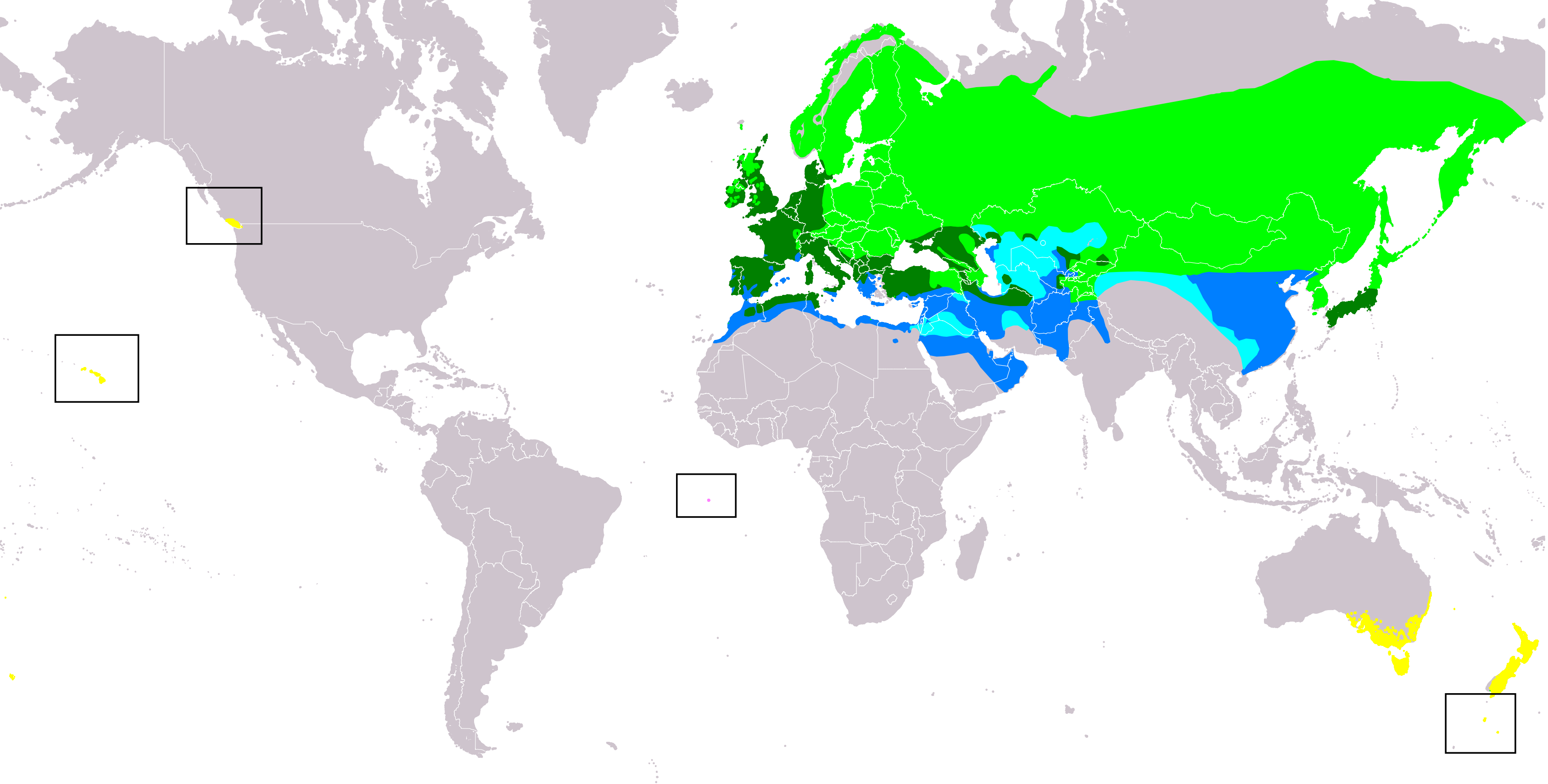 The distribution map of euroasian skylark (Alauda arvensis) according to IUCN version 2019.1; key: Legend: Extant, breeding (#00FF00), Extant, resident (#008000), Extant, passage (#00FFFF), Extant, non-breeding (#007FFF), Extant & Introduced (resident) (#FFFF00), Possibly extinct & Introduced (#FF80FF)